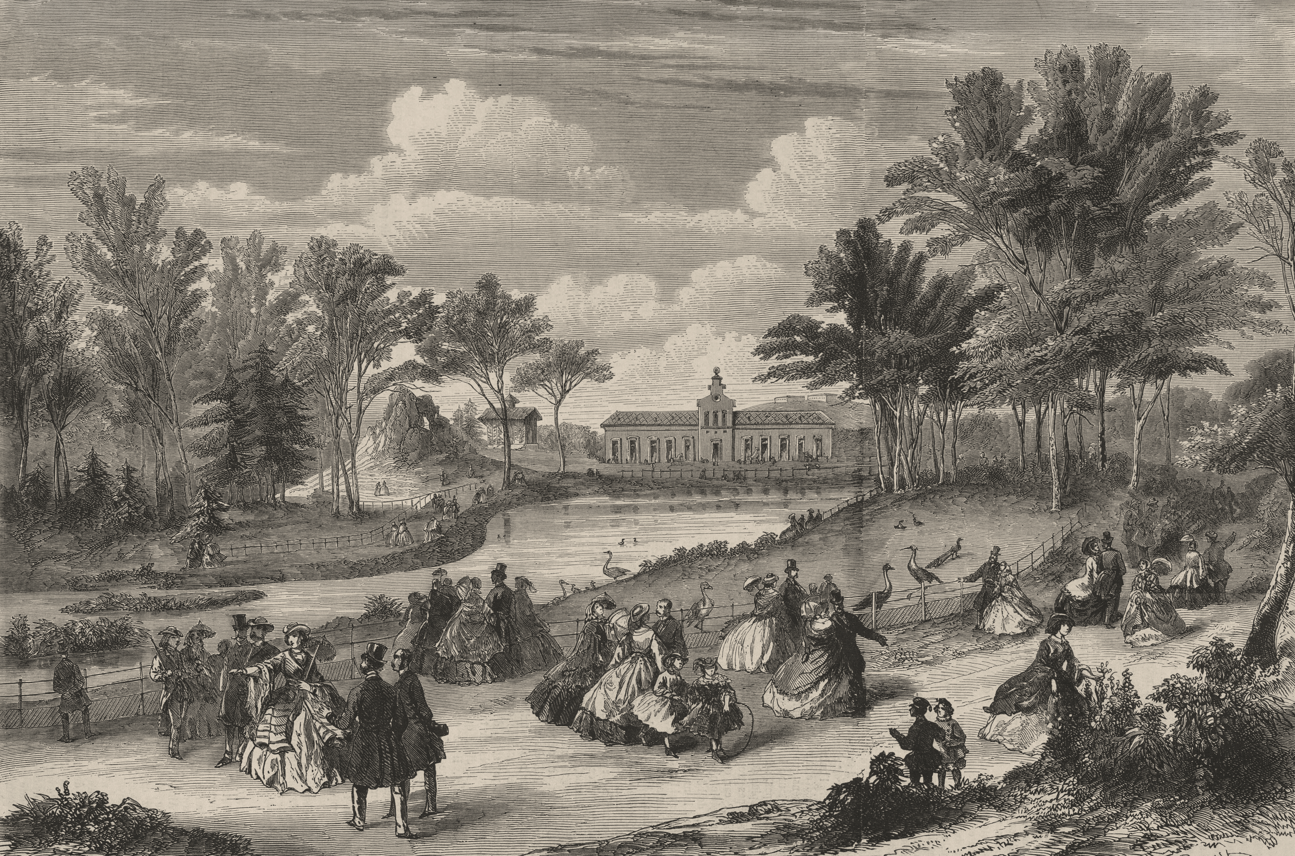 The Jardin zoologique of the Bois de Boulogne was inaugurated in 1860 by the Société d'acclimatation, and featured various species of animals and plants foreign to France.